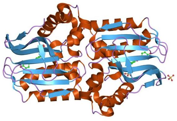 Cartoon representation of the molecular structure of protein registered with 1jep code.